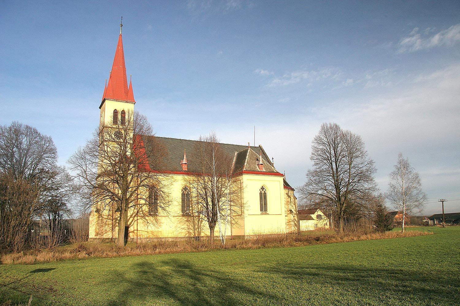 Church of SS Peter and Paul in Zaloňov, Náchod District, Czech Republic. autor: Prazak date: 2. 1. 2007